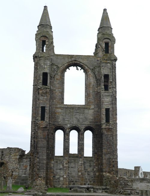 The east gable of St Andrews Cathedral in St Andrews (Scotland)